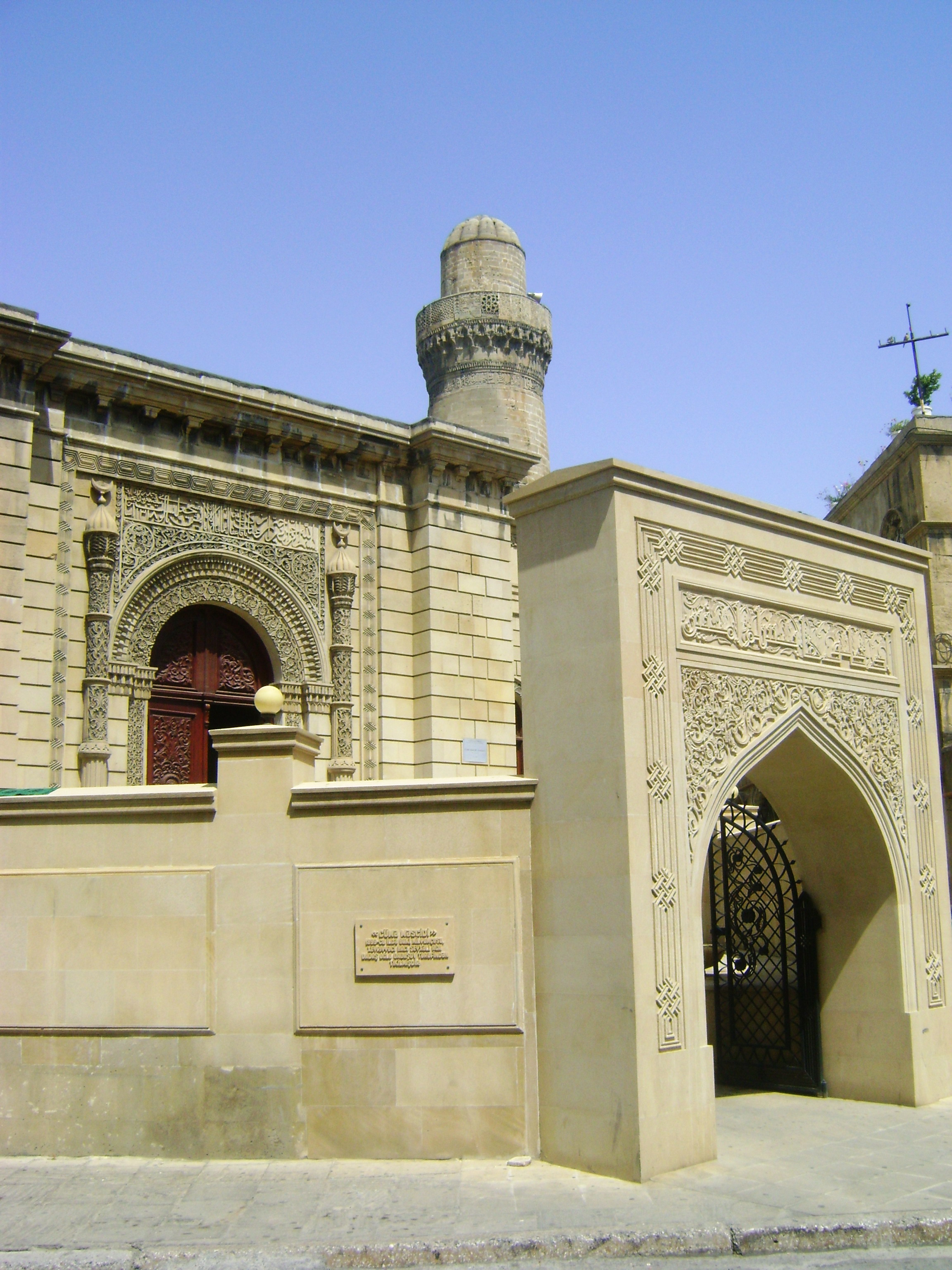 Juma_mosque-Old_City_Baku_Azerbaijan_19th_century - buil by Baku millionaire Haji Sheykh Ali aga Dadash ogly Dadashev in 1899